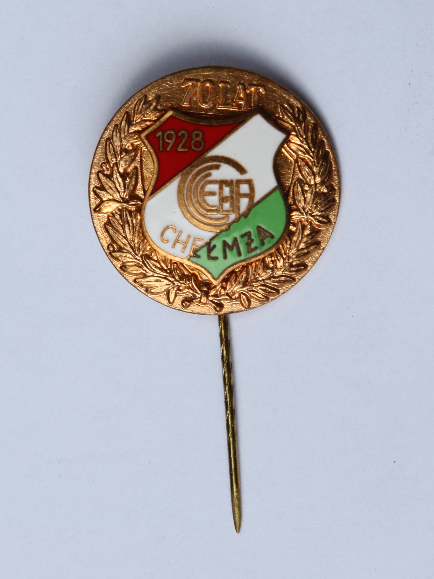 Legia Chełmża pin 70th anniversary 1928-1998 Klub Sportowy Legia Chełmża